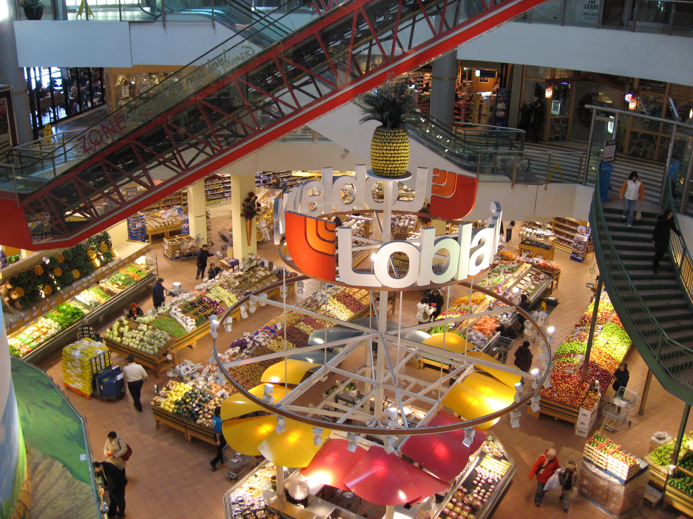 Location: Loblaws, Toronto, Canada, 2007 Author: Sikander Iqbal Date: February 16th 2007